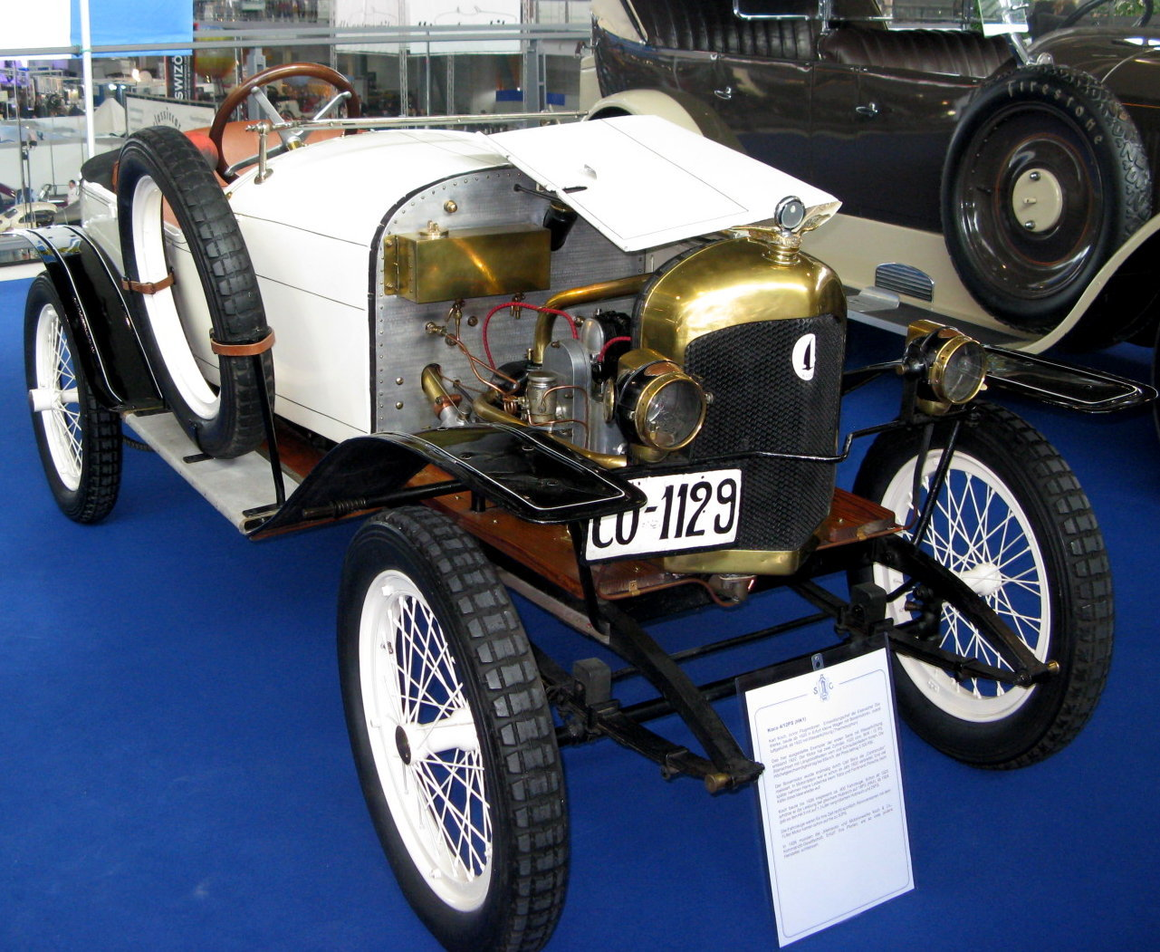 1922 Koco 4/12 hp Cyclecar